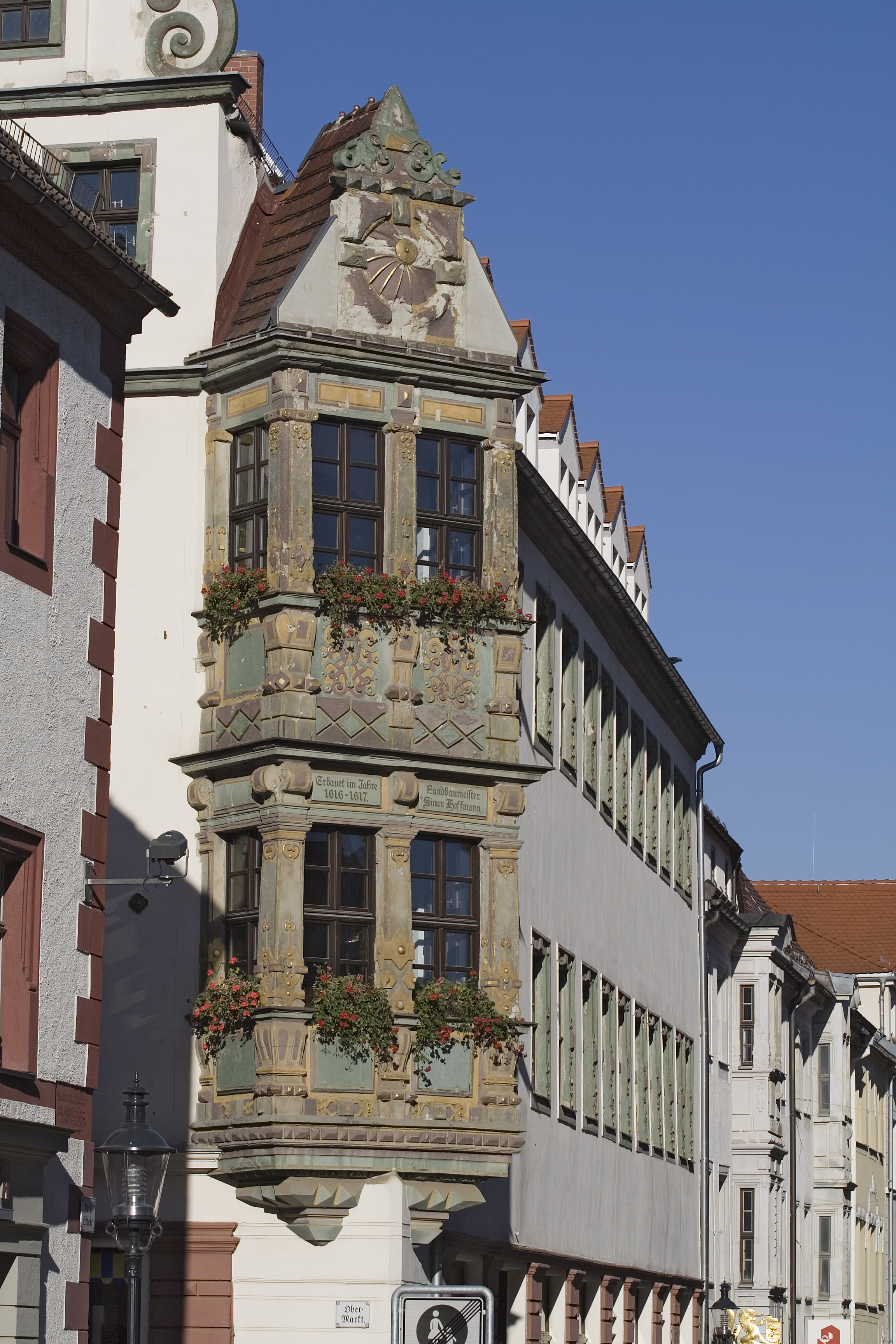 Freiberg (Saxony), Renaissance bay window